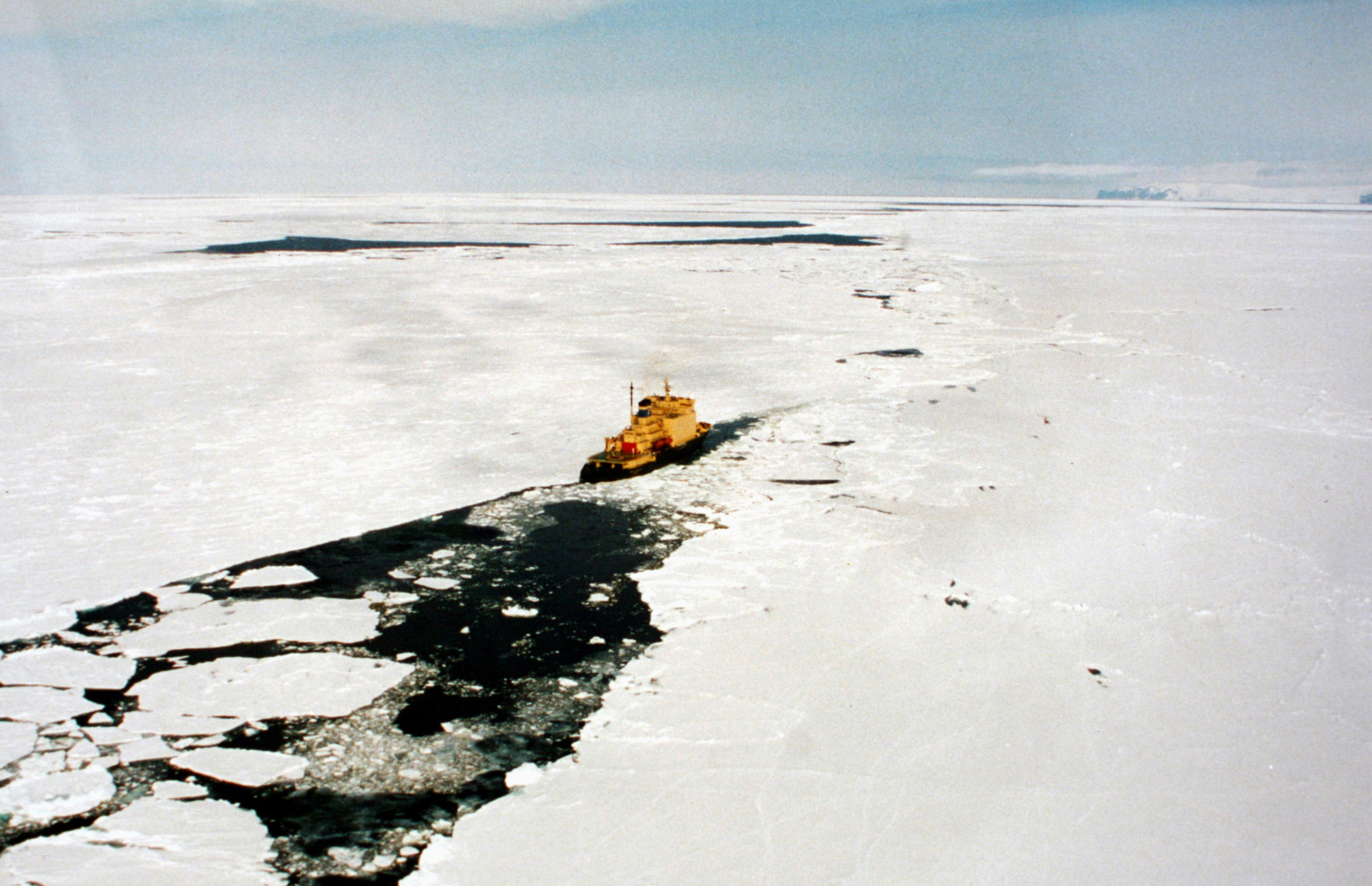 An Icebreaker in Ross Sea,Antarctica Photograped by Brocken Inaglory in January of 2001